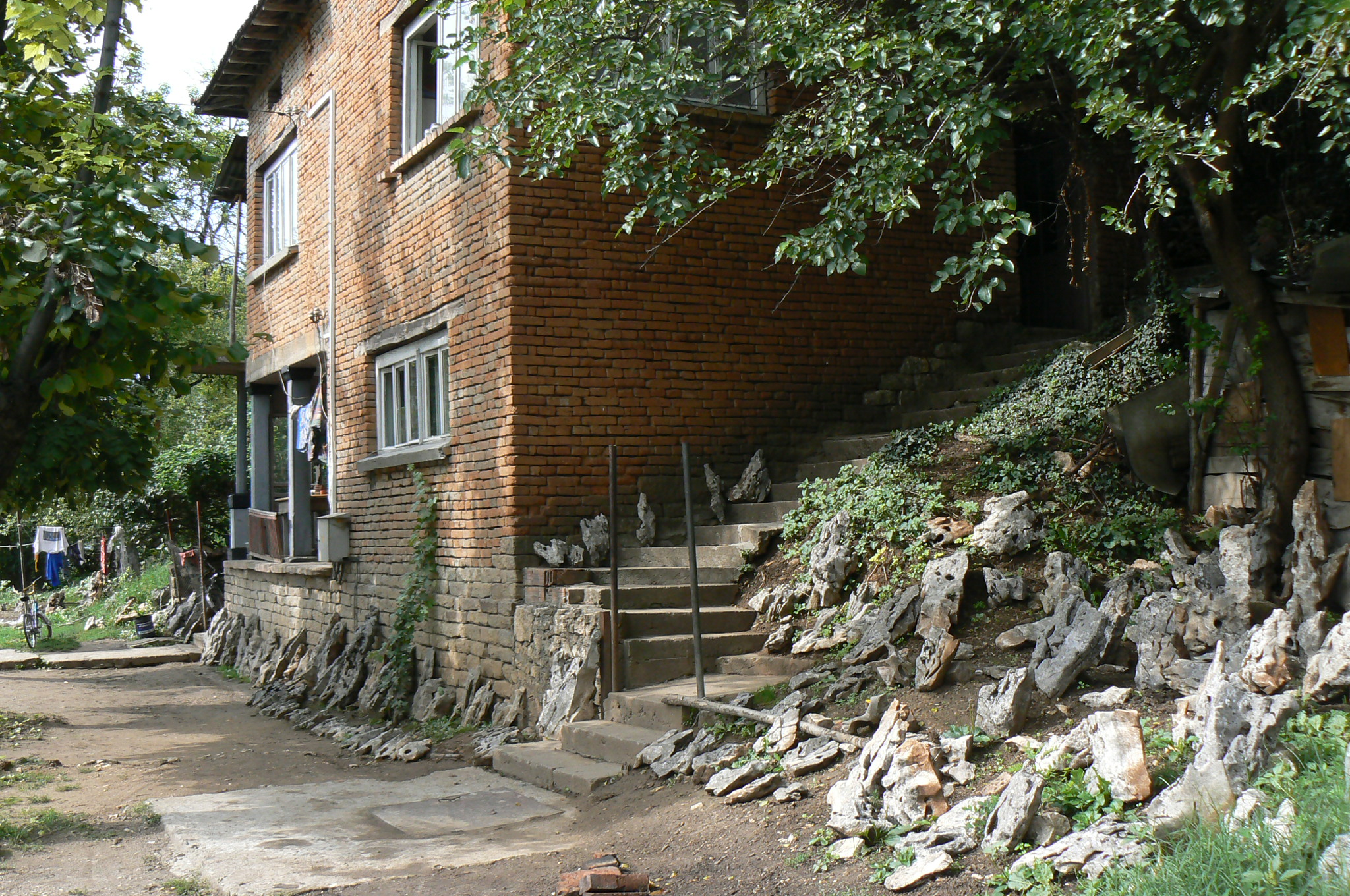 A house in village Rumyantsevo, Bulgaria. Decorative stones from the nearby karst region are on sale.